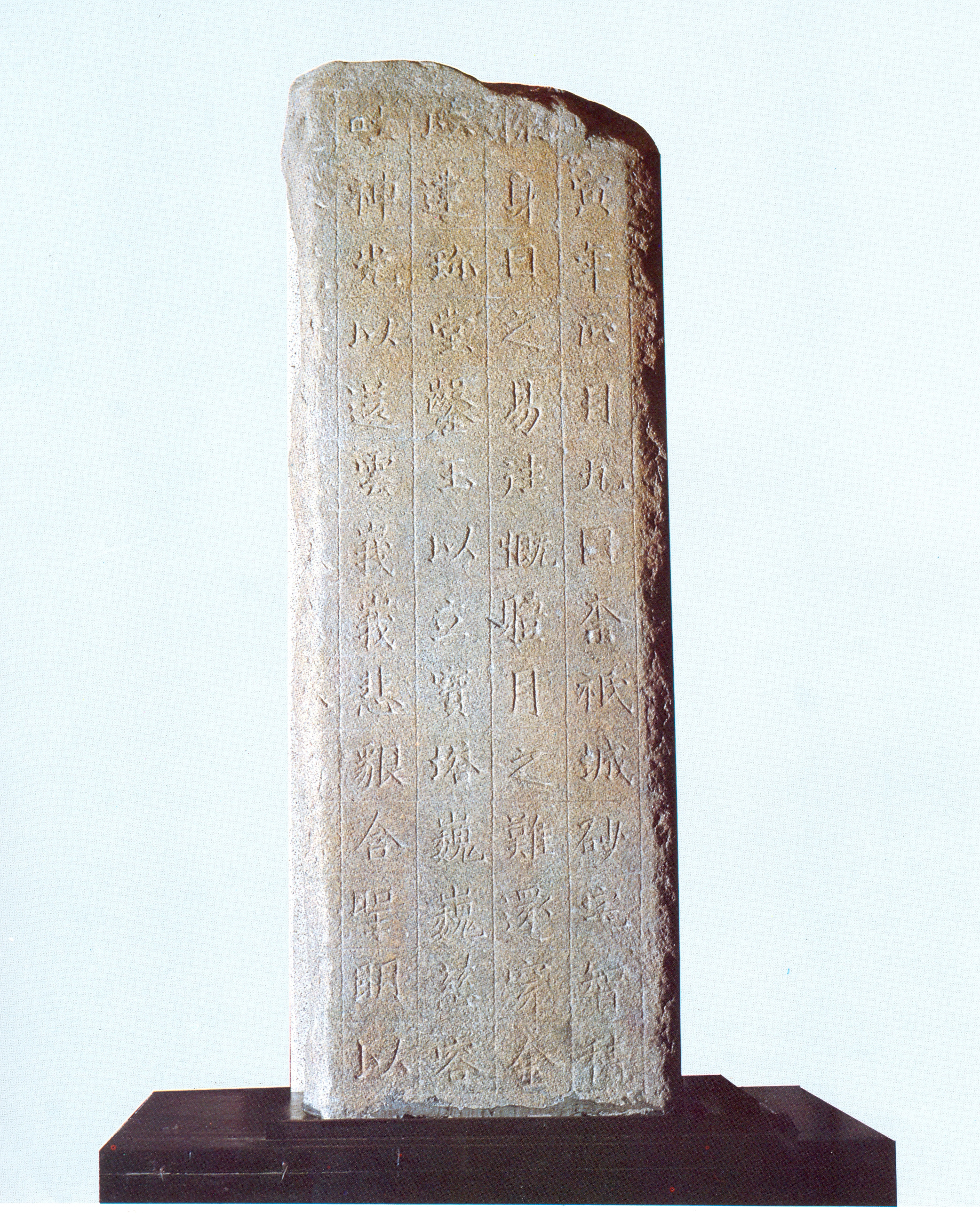 Stele was built by Sataekjijeok at the Baekje Kingdom, Korea